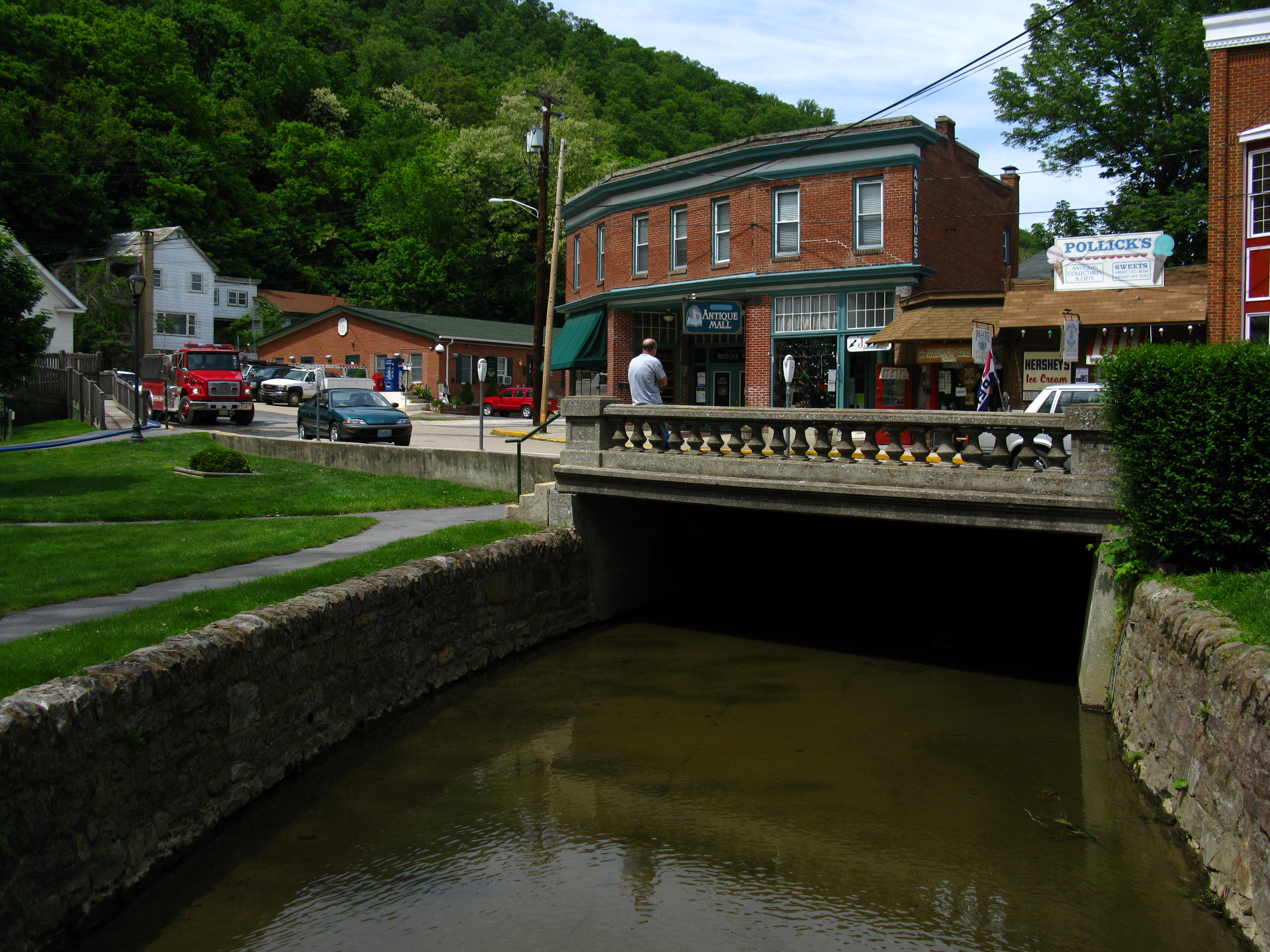 Fairfax Street alongside Berkeley Springs State Park, Bath (Berkeley Springs), West Virginia